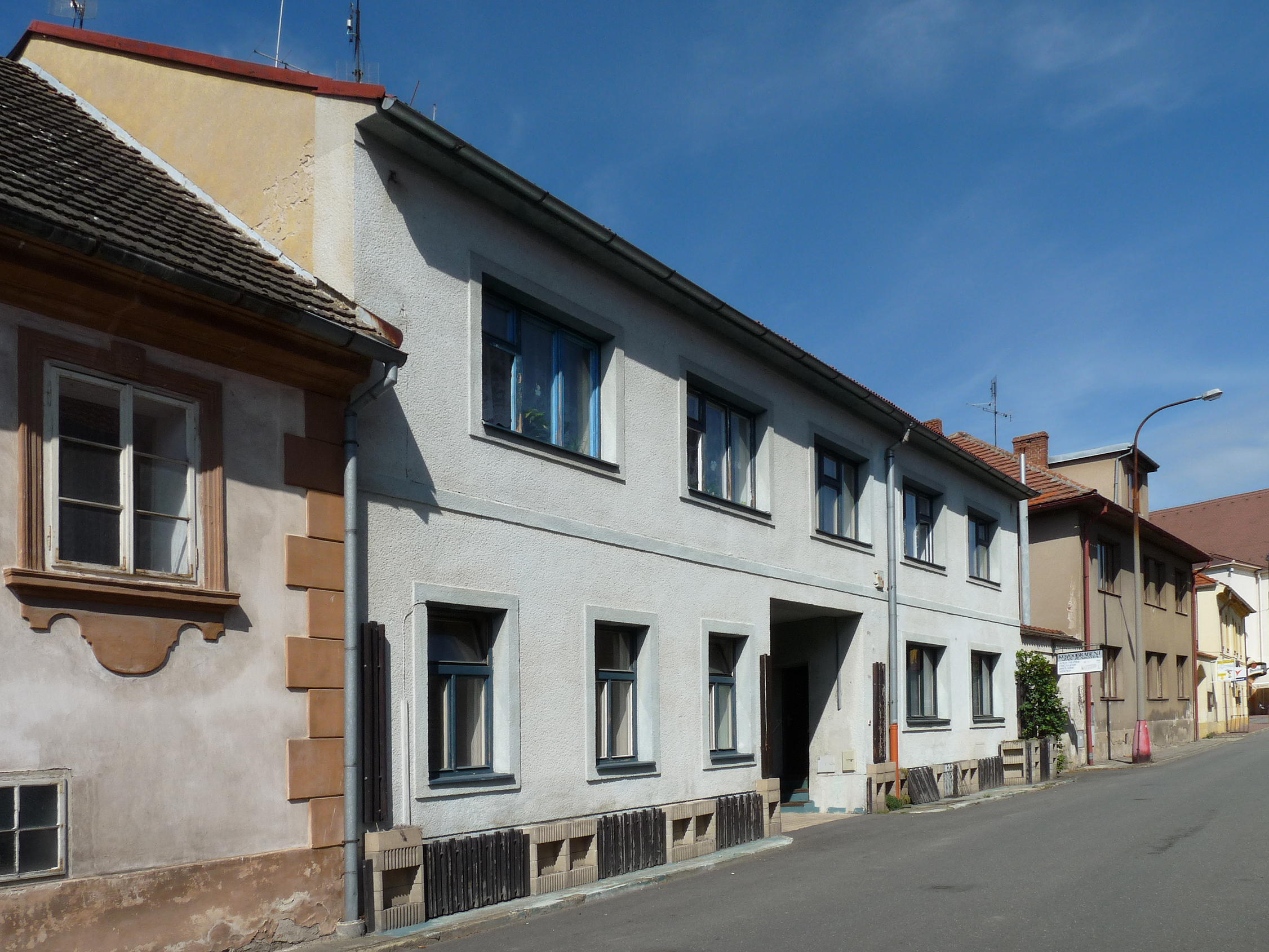 Former synagogue in the town of Soběslav, Tábor District, Czech Republic, nowadays house No 30 in Jirsíkova Street